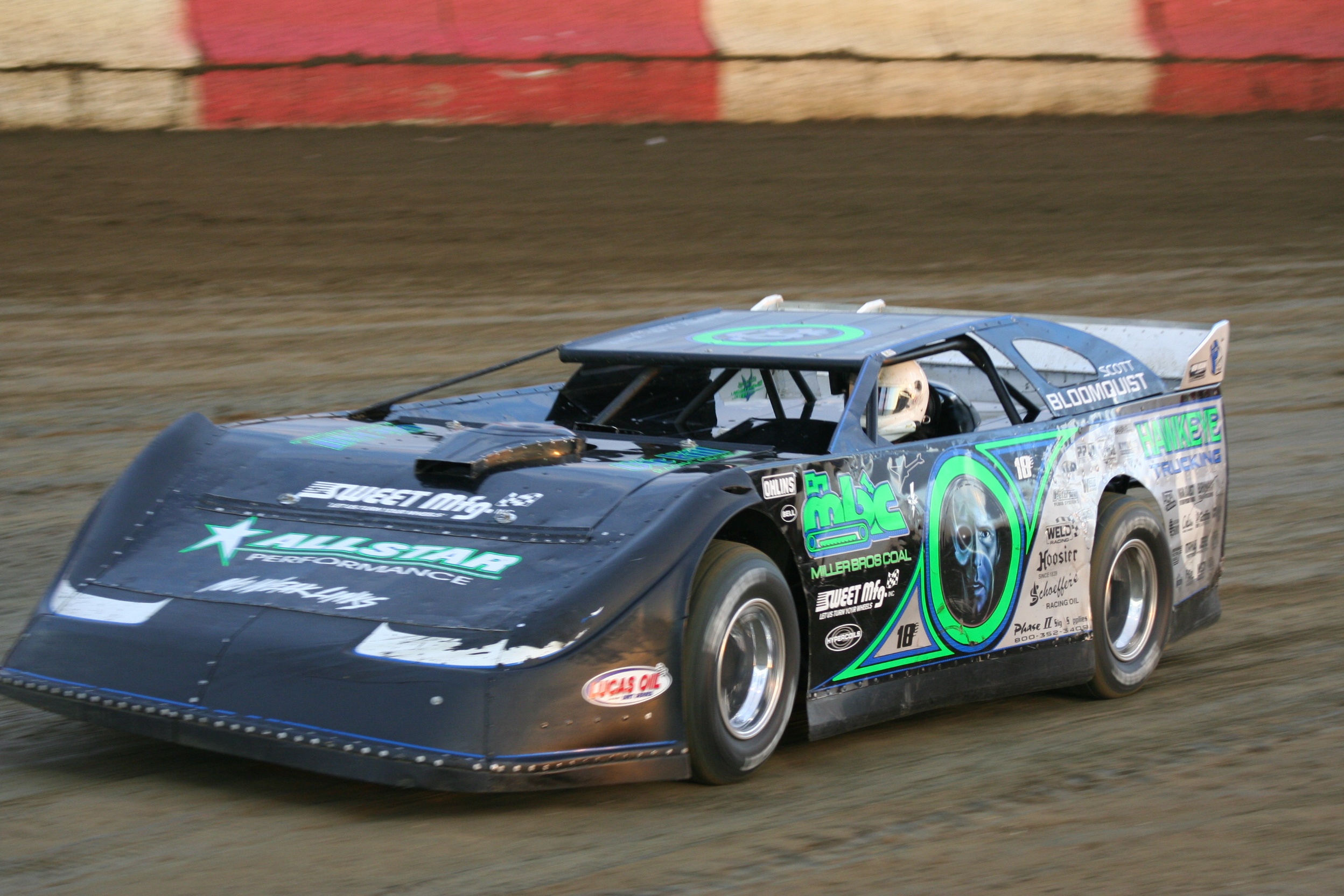 The dirt late model Hall of Fame driver Scott Bloomquist, Shot by "The Daredevil" at the 2008 East Bay Winternationals